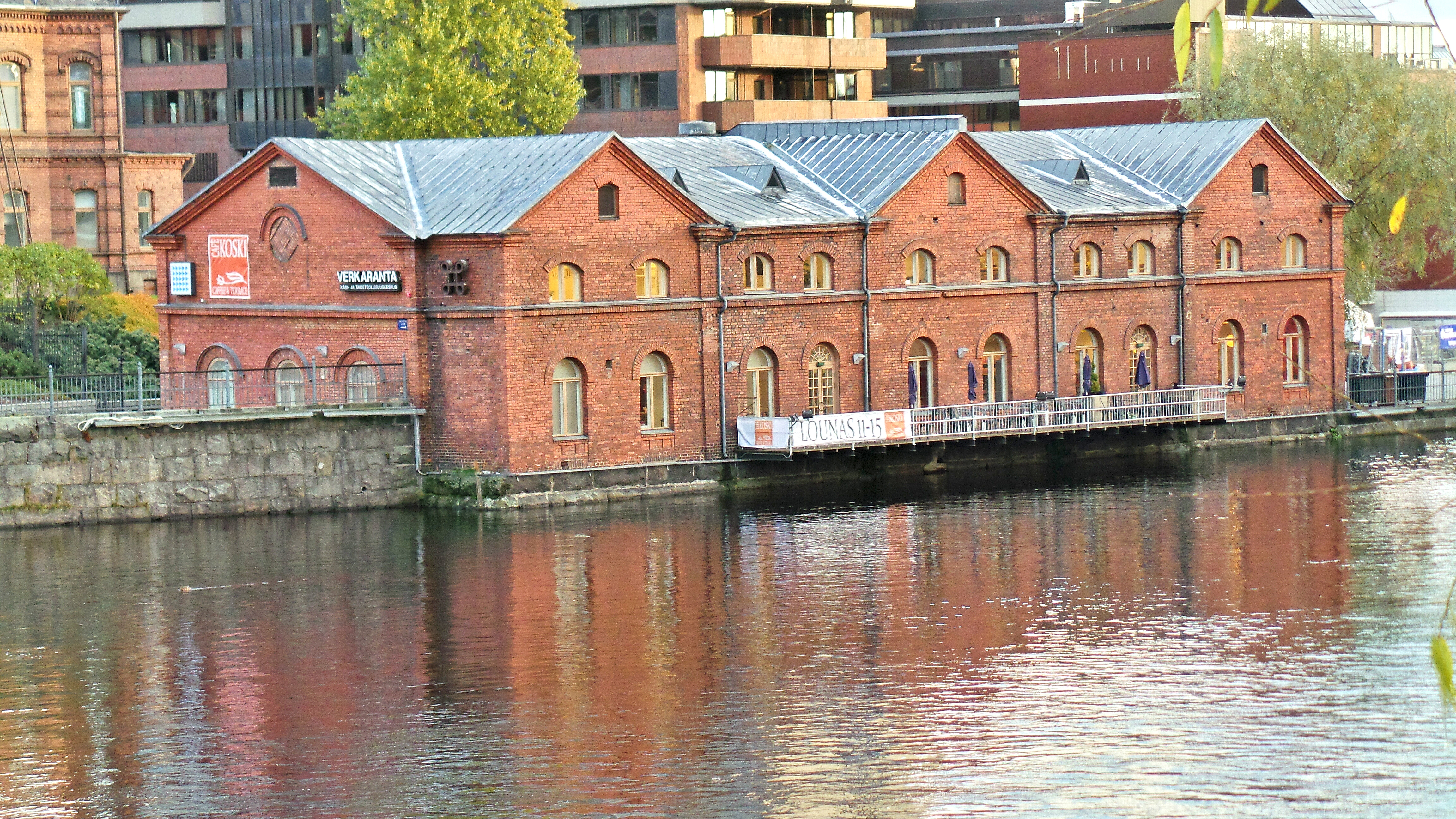 Verkaranta near Verkatehtaanpuisto, Tammerkoski, Tampere